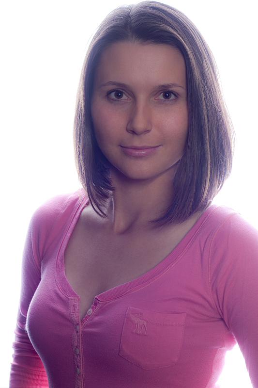 Klaudia Jans-Ignacik (born 1984) - Polish tennis player, specialized in the doubles competition, finalist of a WTA tournament in doubles, represented Poland at the Federation Cup.